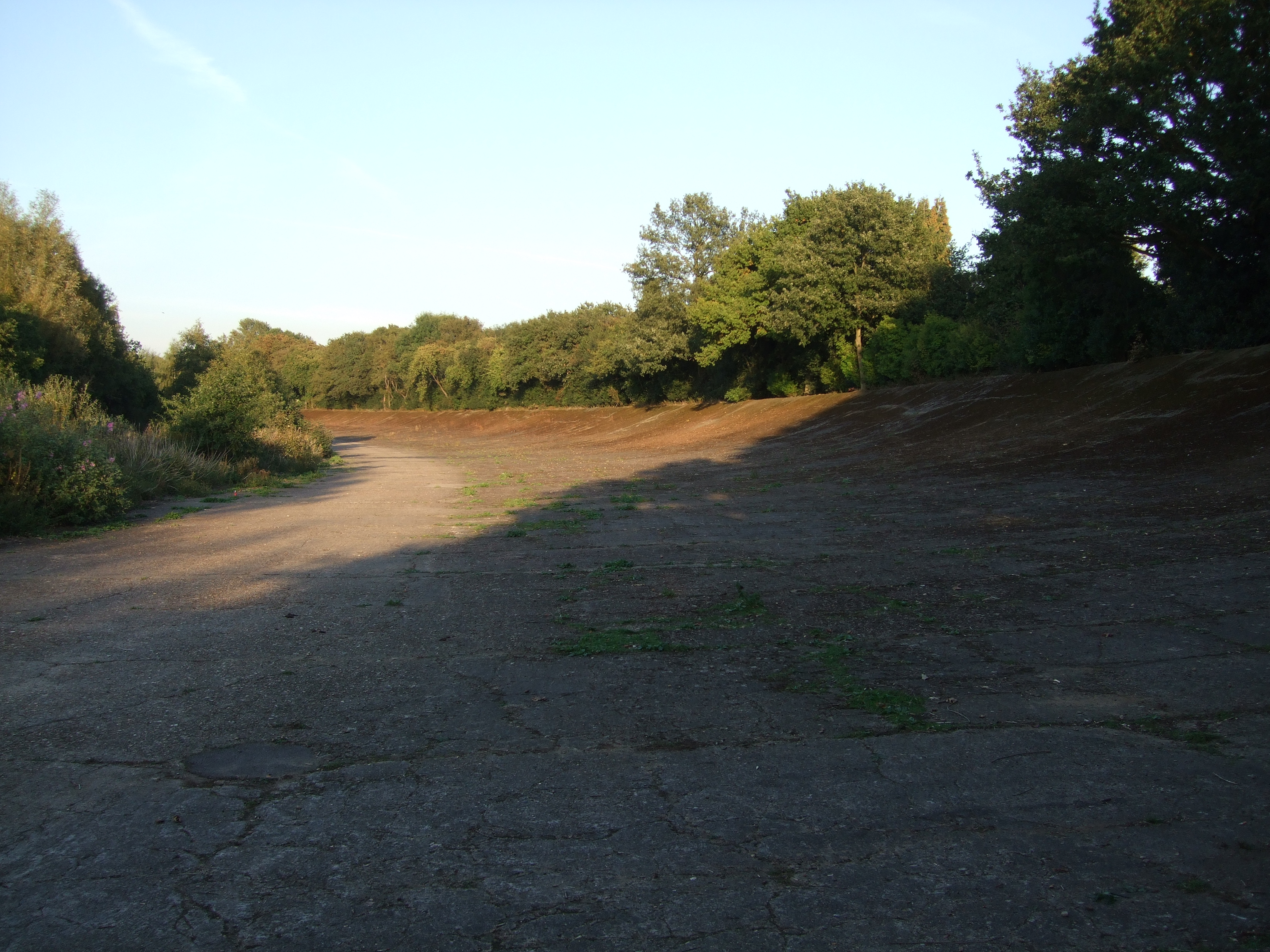 Brooklands Banked Track. Another remnant of the Brooklands Racetrack (1105090).